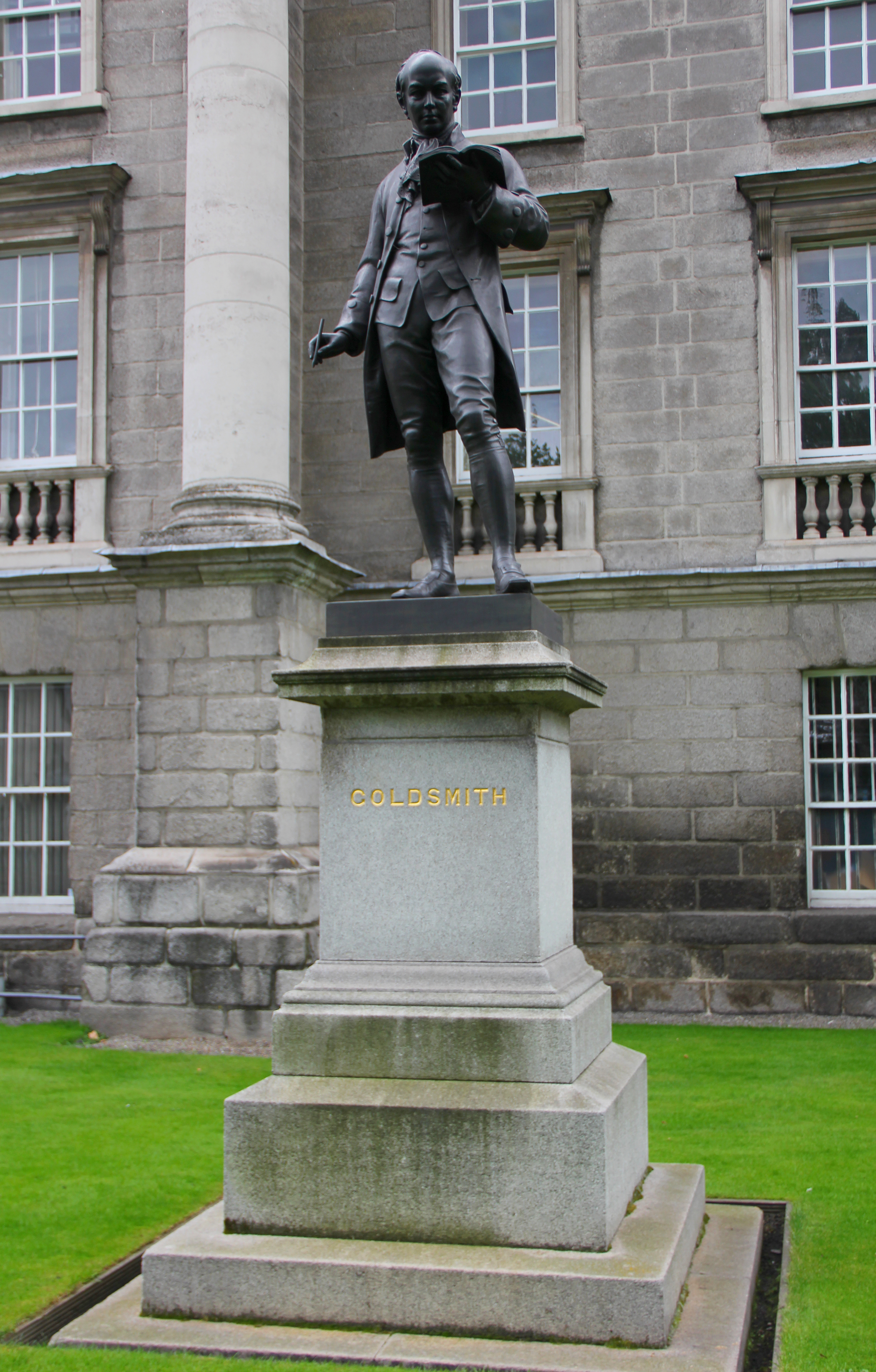 Oliver Goldsmith statue in front of the Trinity College in Dublin, Ireland.